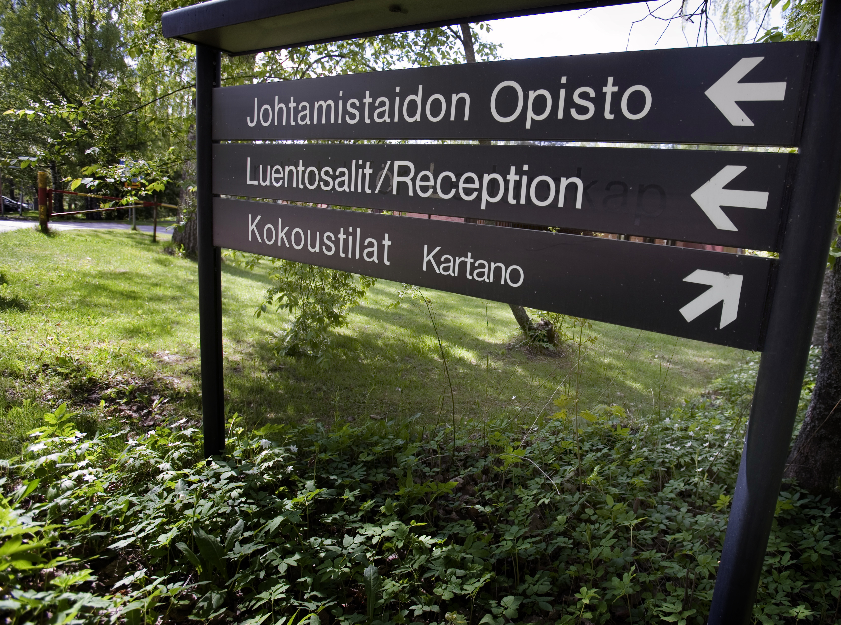 JTO School of Management, Johtamistaidon Opisto JTO